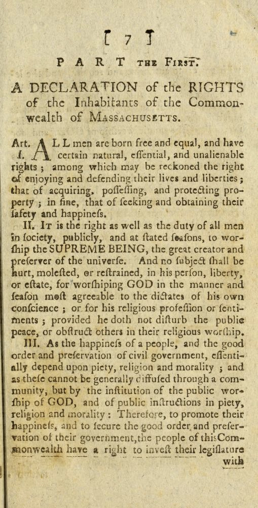 The first article of the Massachusetts Constitution, "A Declaration of the Rights of the Inhabitants of the Commonwealth of Massachusetts"